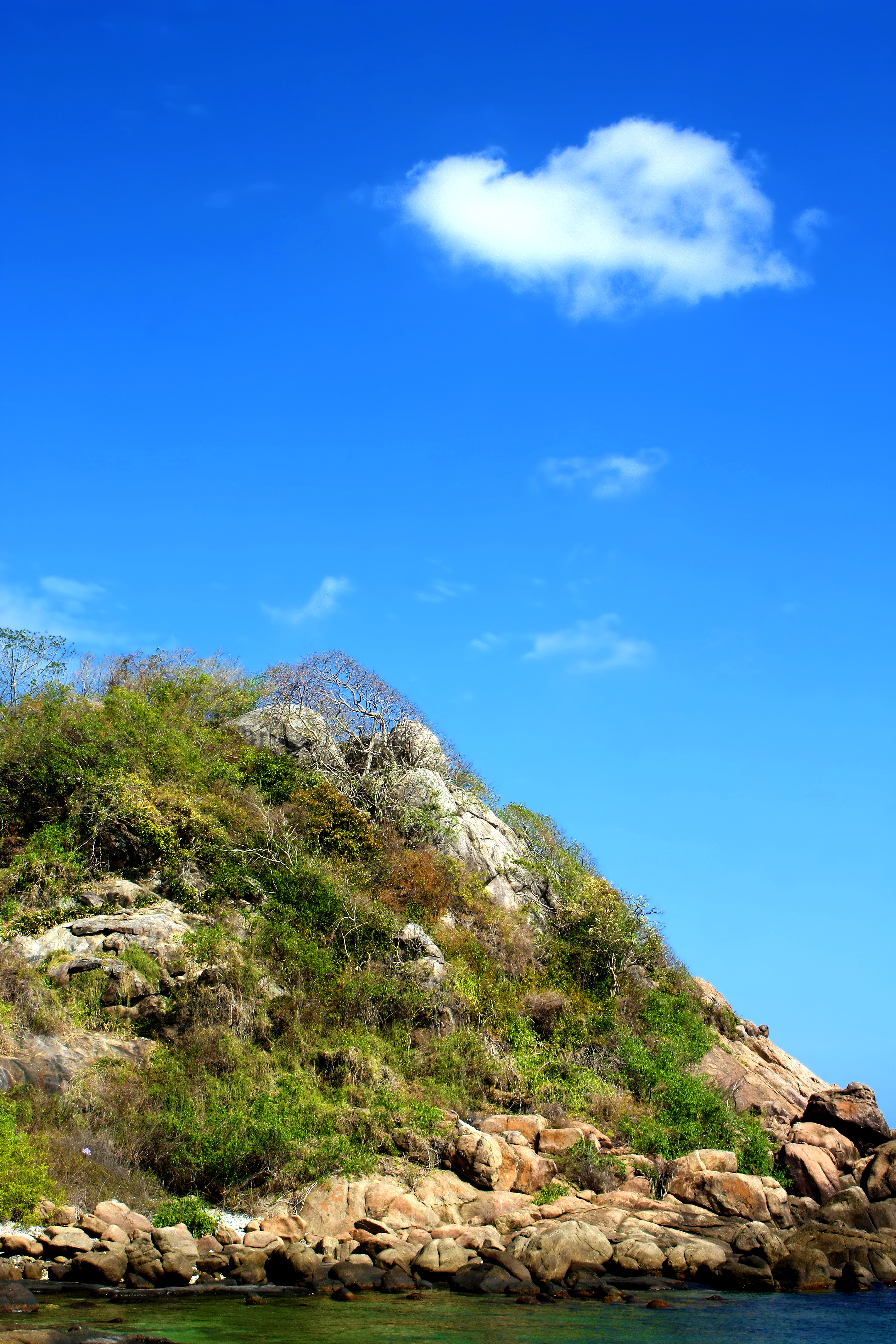 Main Rock in Pigeon Island National Park, Trincomalee, Sri Lanka. Main rock in northwest